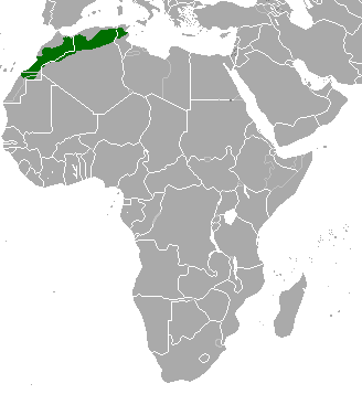 Range map of the Cuvier´s gazelle (Gazella cuvieri) according to Jonathan Kingdon: The Kingdon Field Guide to African Mammals. A&C Black Publishers, London 1997 [2007], ISBN 978-0-7136-6513-0 (476 Seiten). Mallon, D.P. & Cuzin, F. 2008. Gazella cuvieri. In: IUCN 2011. IUCN Red List of Threatened Species. Version 2011.1. . Downloaded on 13 July 2011. Source=Base map derived from File:BlankMap-World.png.